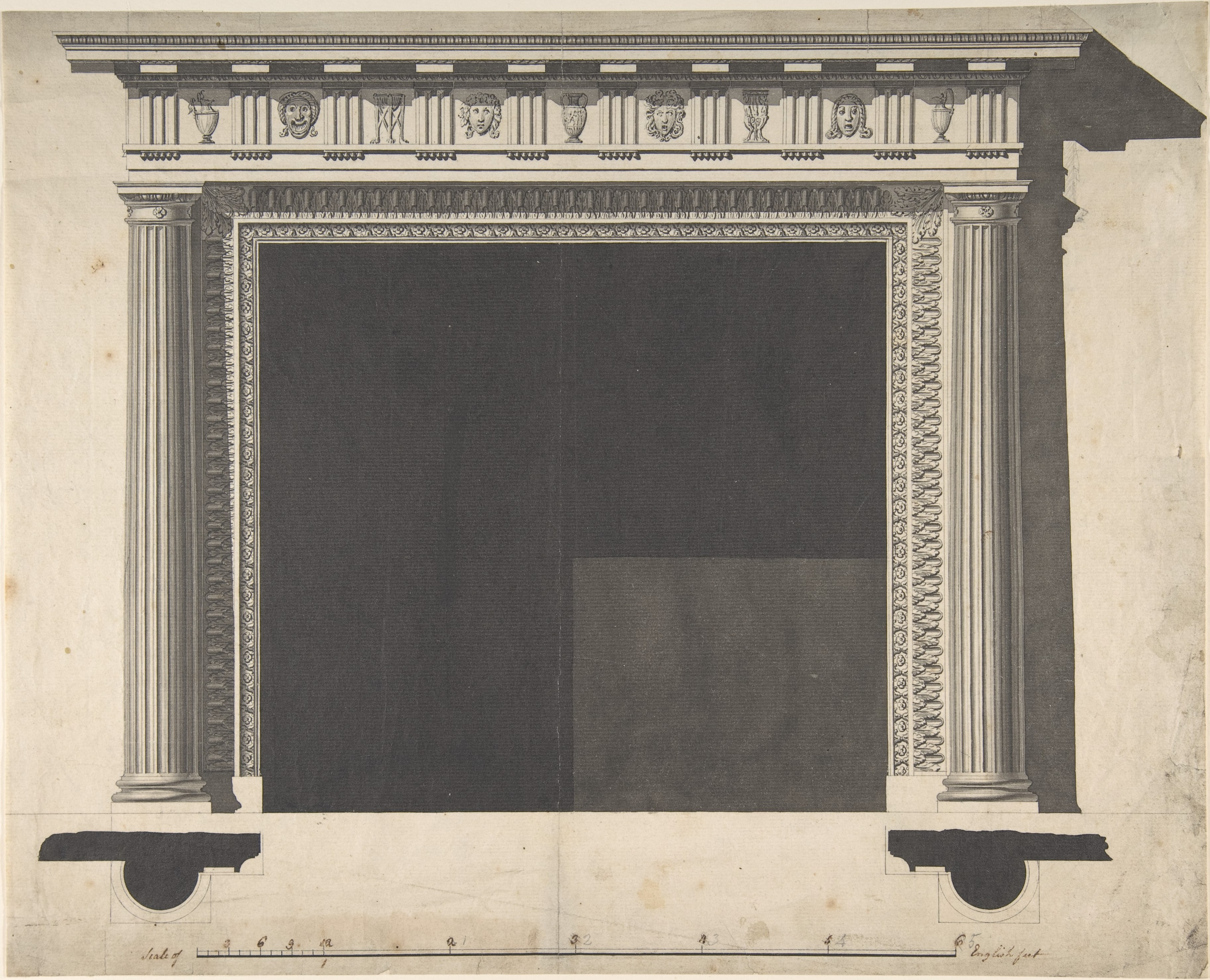 Drawing ; Ornament and Architecture; Drawings